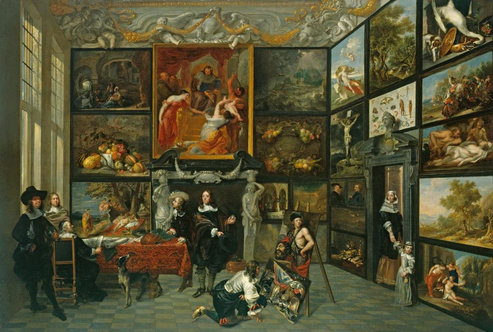 This image is available from the Netherlands Institute for Art Historyunder digital ID 116509. This tag does not indicate the copyright status of the attached work. A normal copyright tag is still required. See Commons:Licensing.